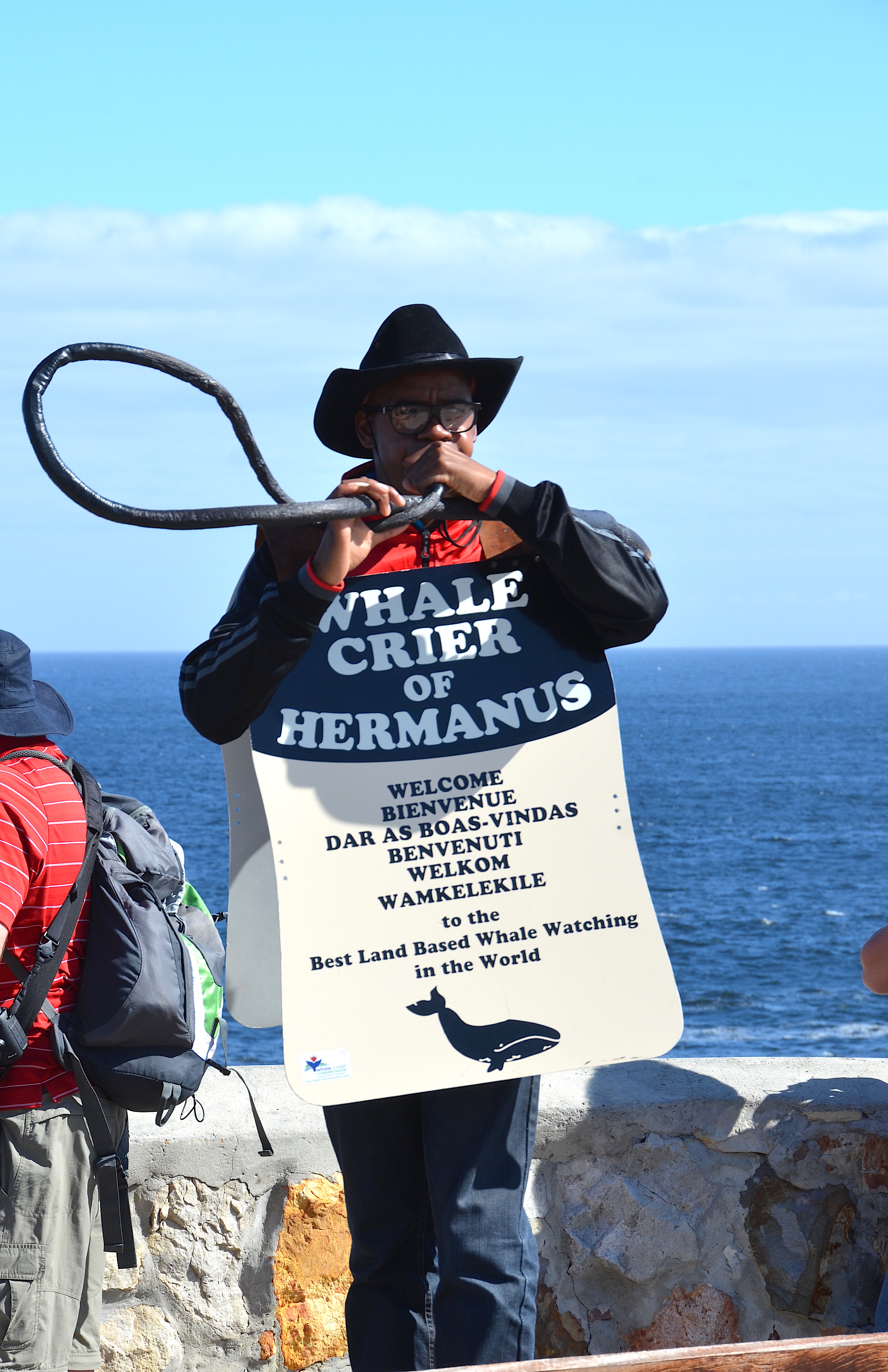 Whale Crier of Hermanus